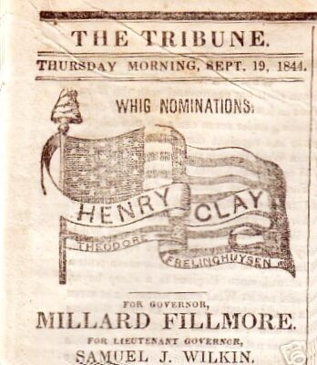 NY Tribune (USA) endorses Henry Clay in 1844 Scanned from paper copy